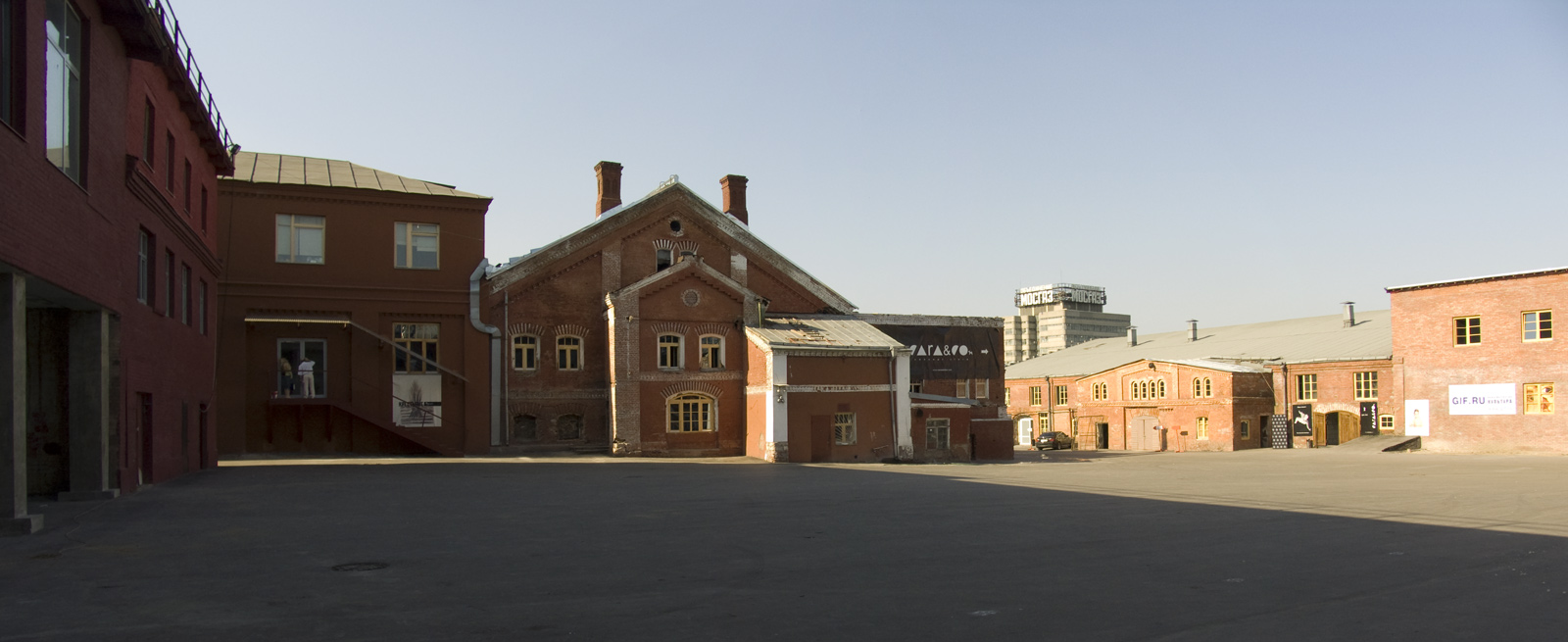 Moscow, Panoramic View of the Winzavod Contemporary Art Center